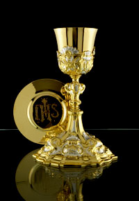 Chalice in baroque style with a paten.